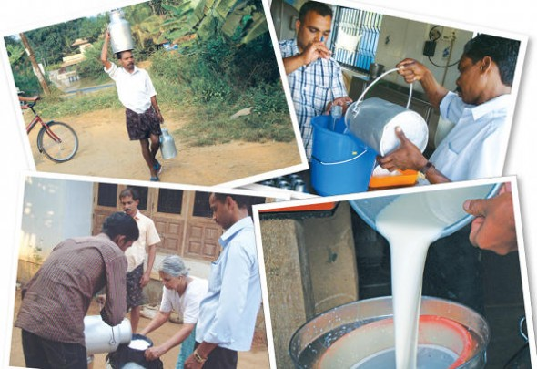 Anakkara a milk village